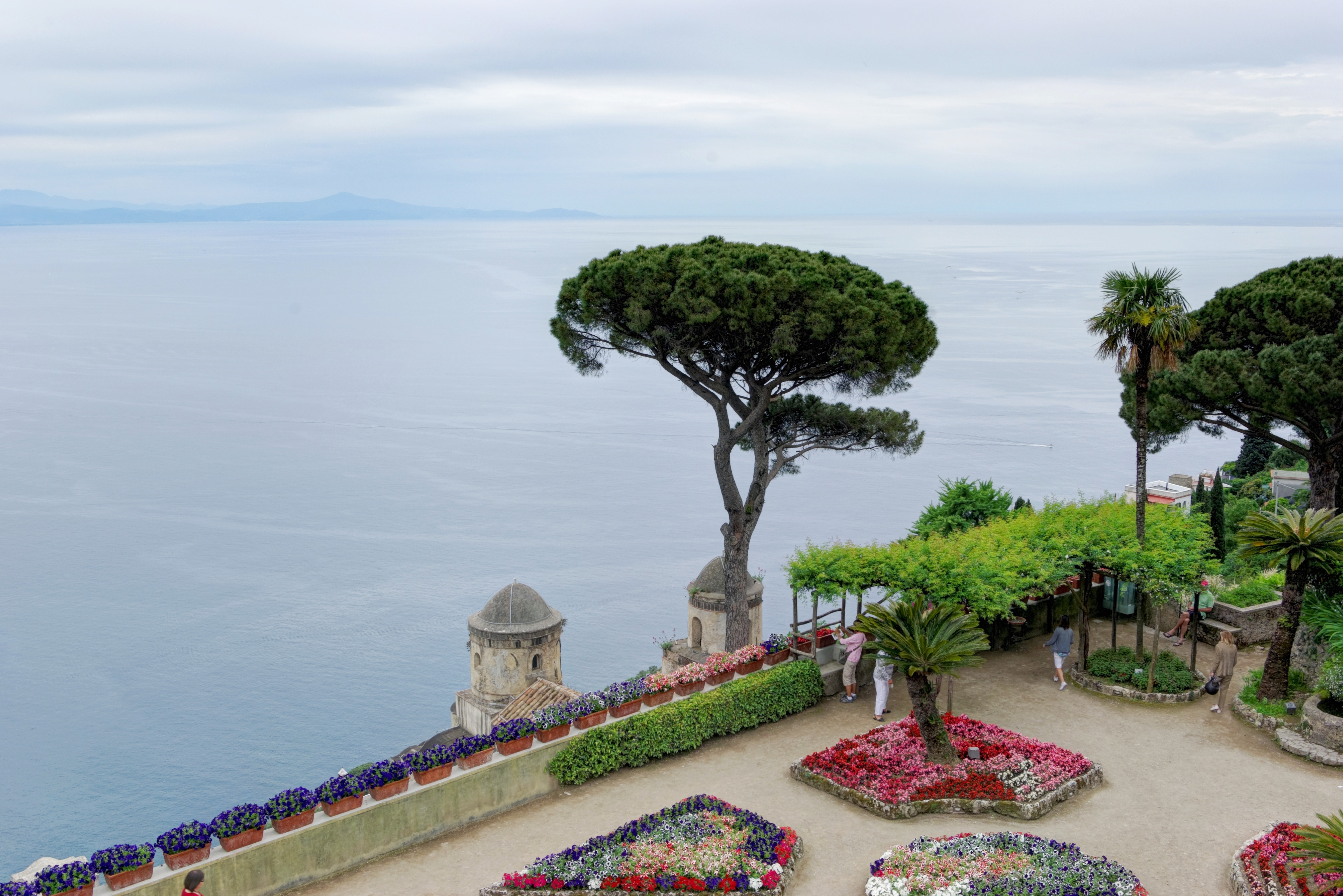 Ravello, Villa Rufolo